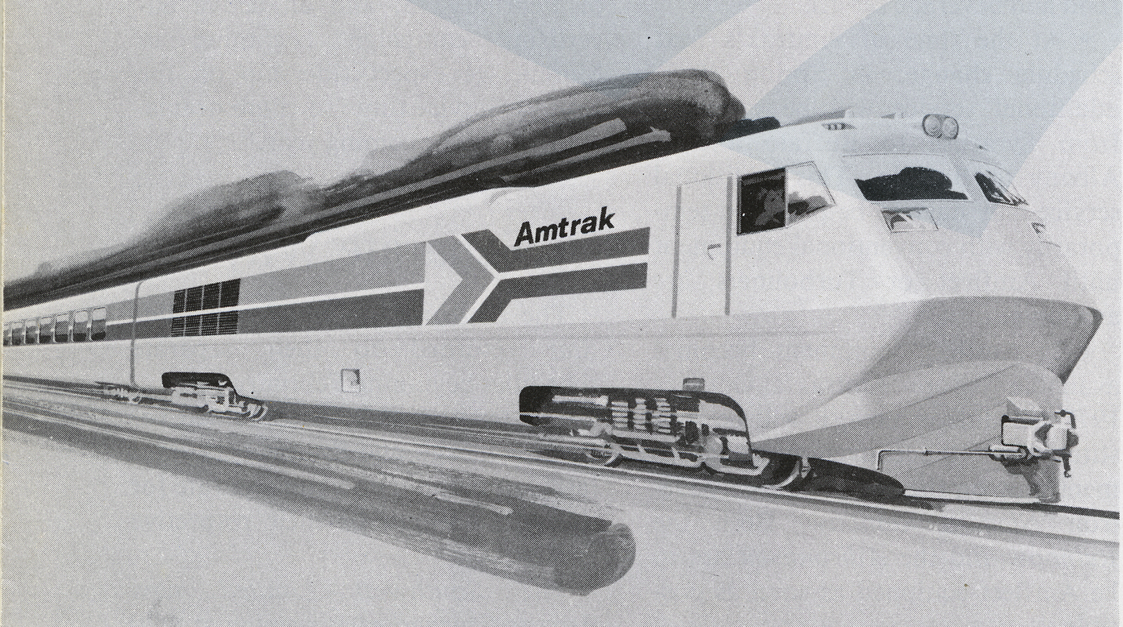 Rendering of an LRC trainset in Amtrak livery